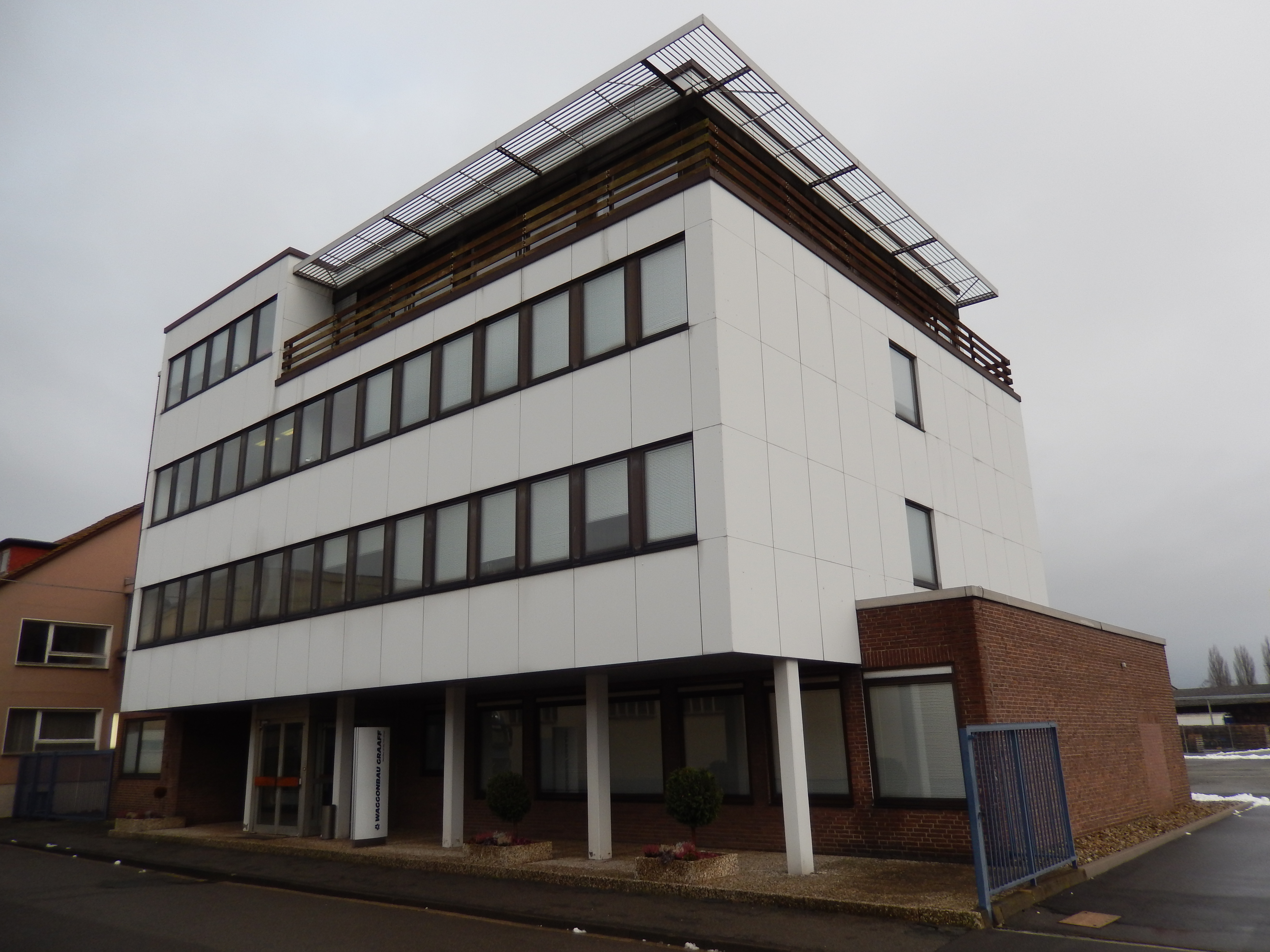 Office building of Waggonbau Graaff in Elze, Germany.